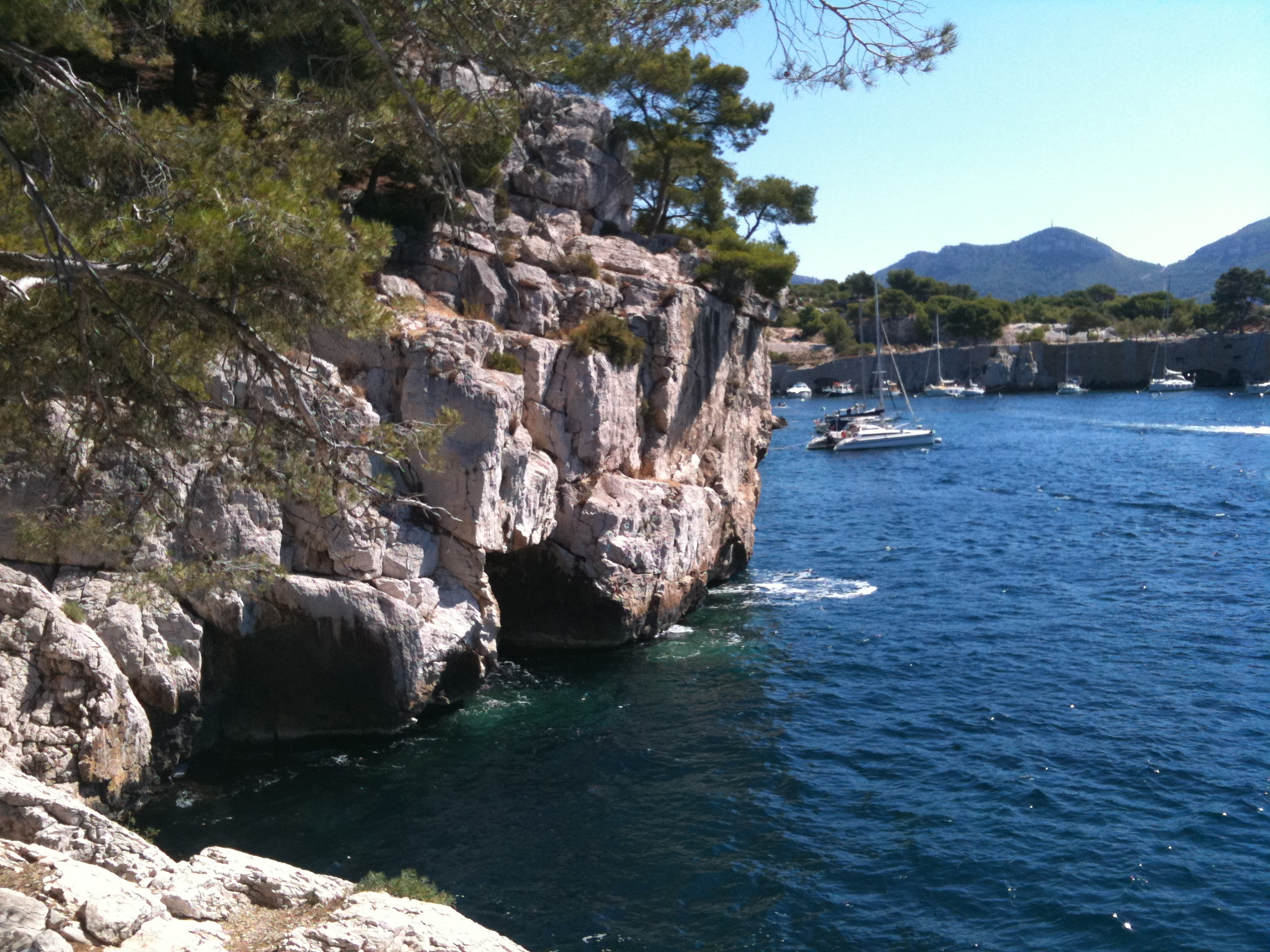 Submarine output of the karst spring, "Port-Miou", Cassis, Marseille. Output of the upper karst spring of two submarine karst conduits, result of the complete desiccation of the Mediterranean Sea in late Miocene.